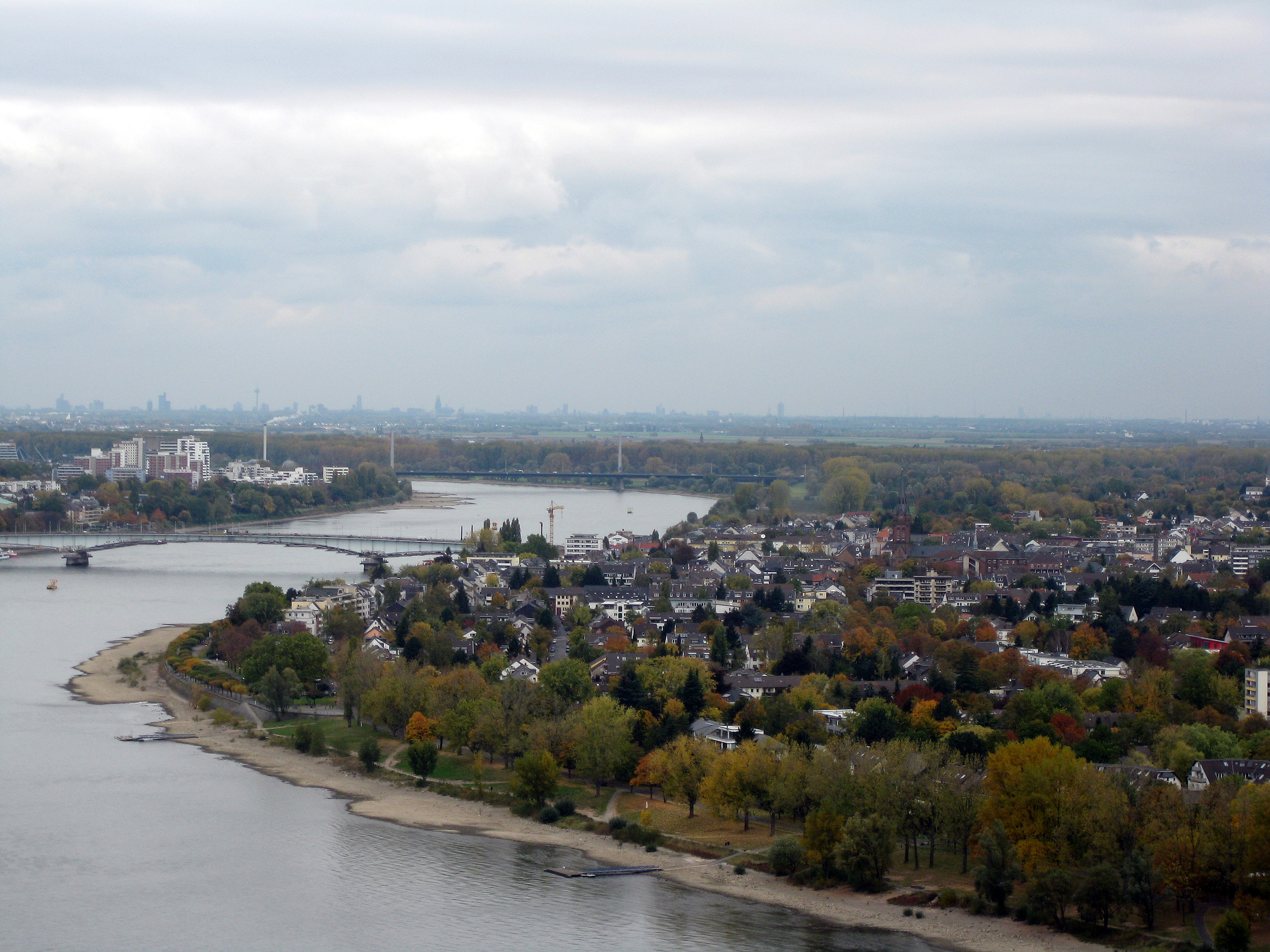 Bonn and Cologne are pretty close, if we had a good day we could see Cologne's cathedral from here.